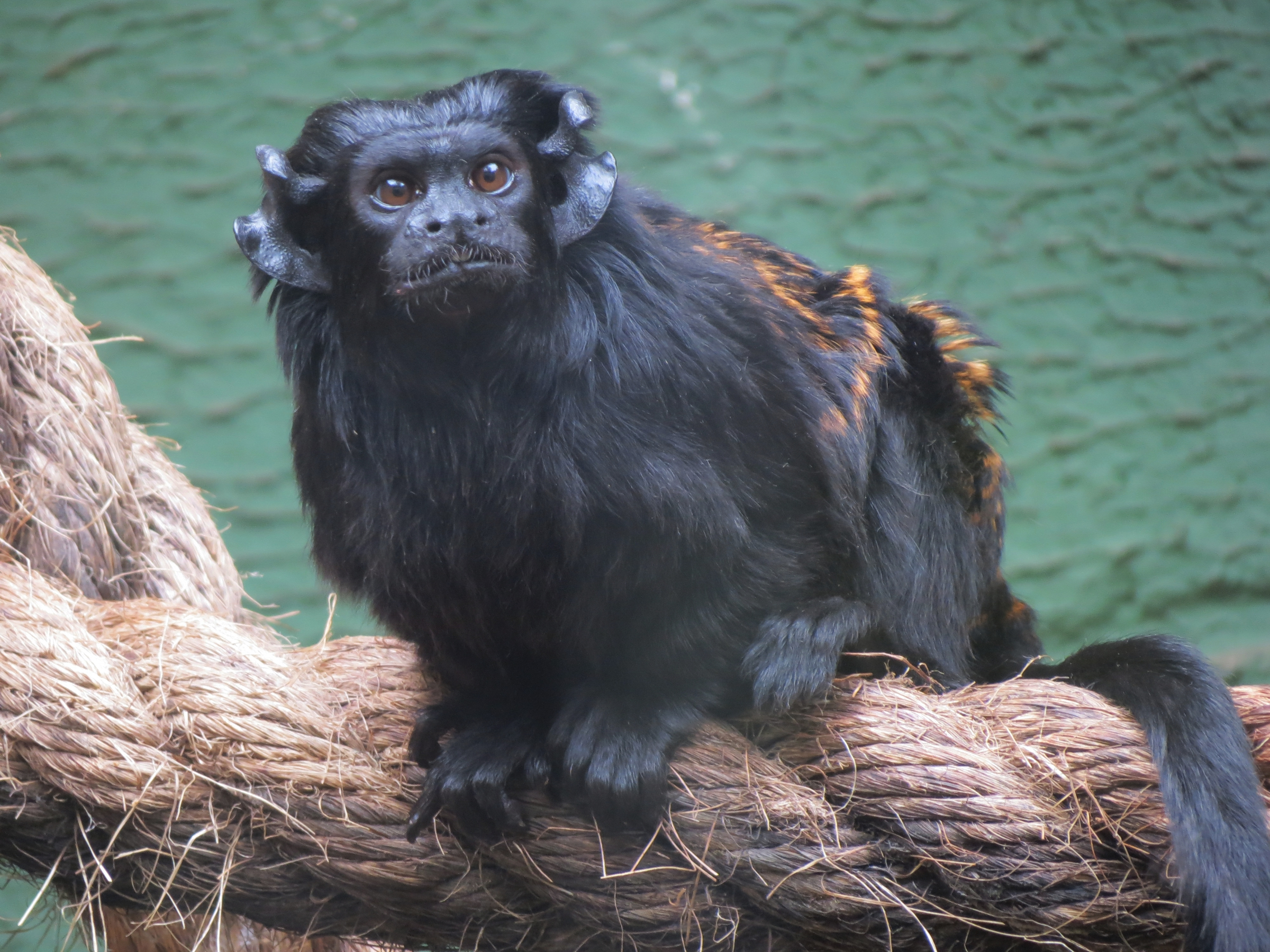 Black-handed-tamarin (Saguinus niger) in Sorocaba Zoo.